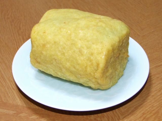 Karashirenkon 辛子蓮根 before cutting